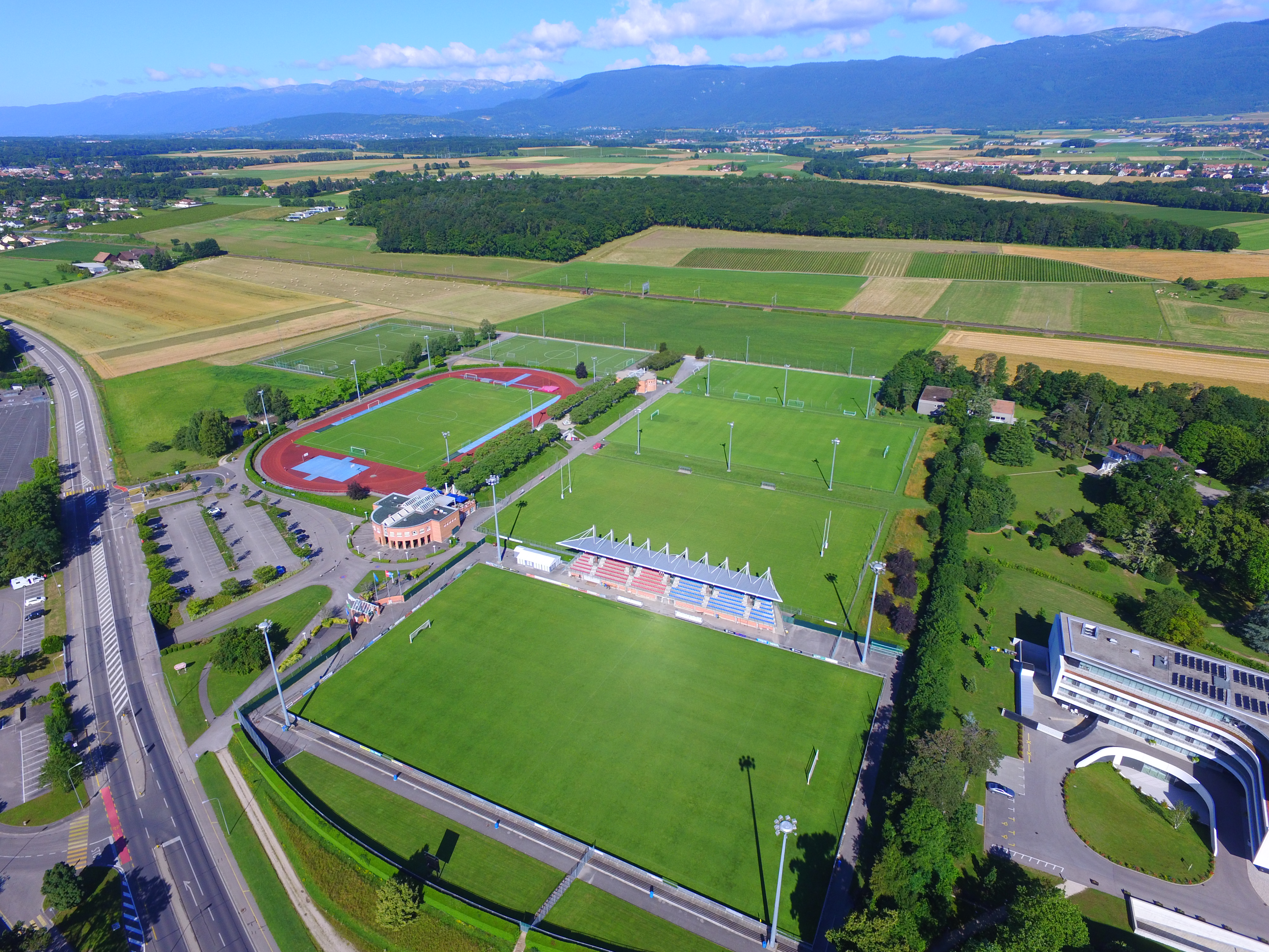 Centre Sportif de Colovray Nyon is where FC Stade Nyonnais play their home football and rugby games. The site is opposite the UEFA headquarters.